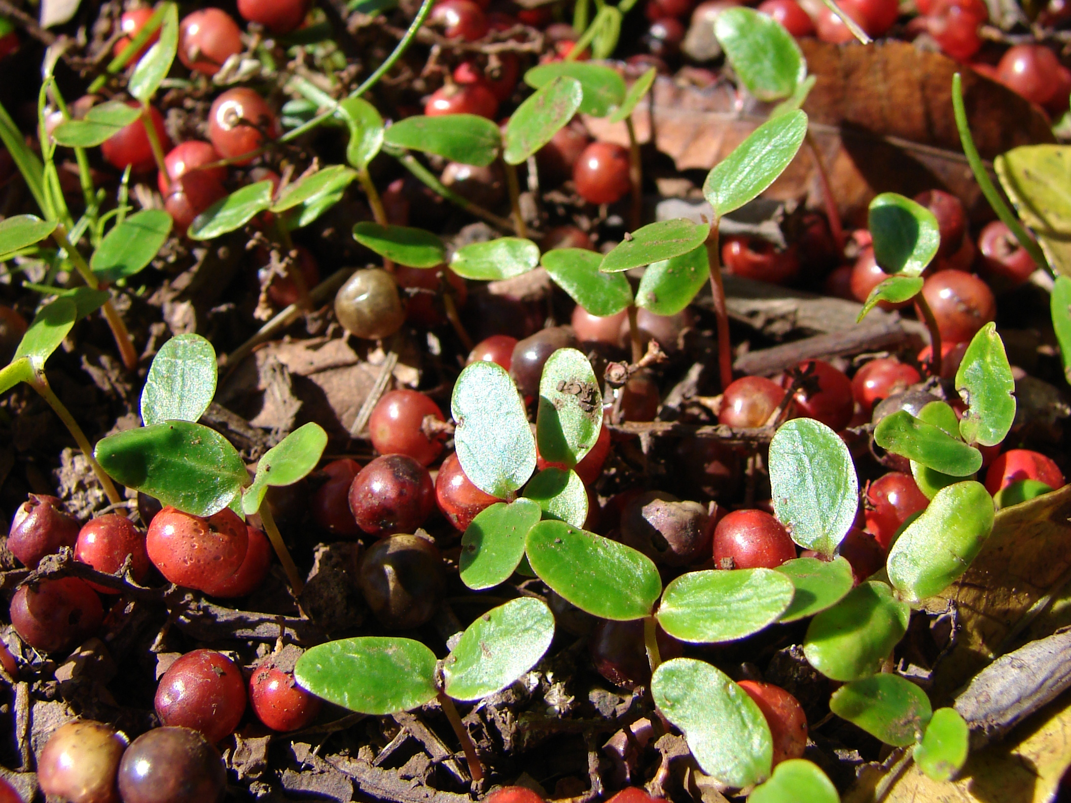 Schinus terebinthifolius (berries). Location: Maui, Makawao